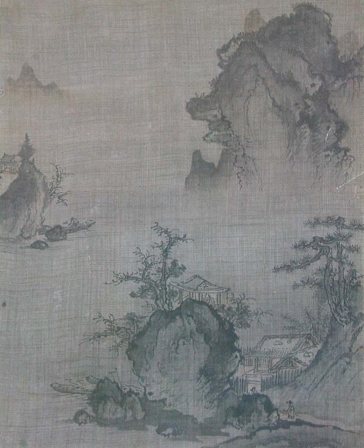 sasipalgyeongdo is a collection of eight paintings that depict the eight seasons of a mountain and water landscape